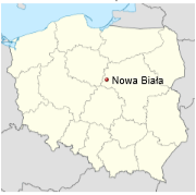 Map of the location of the town of Nowe Draganie in Poland